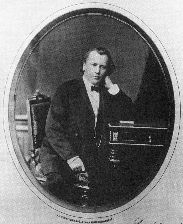 Johannes Brahms (1833-1897), german composer